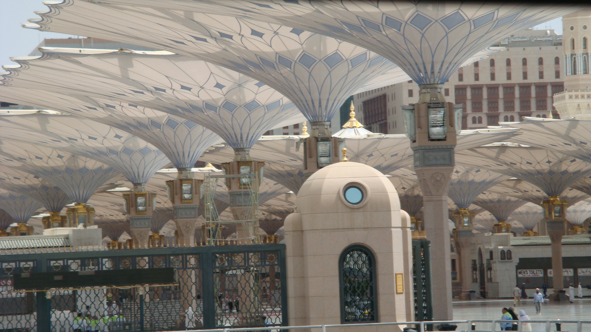 Al-Masjed Al-Nabawi